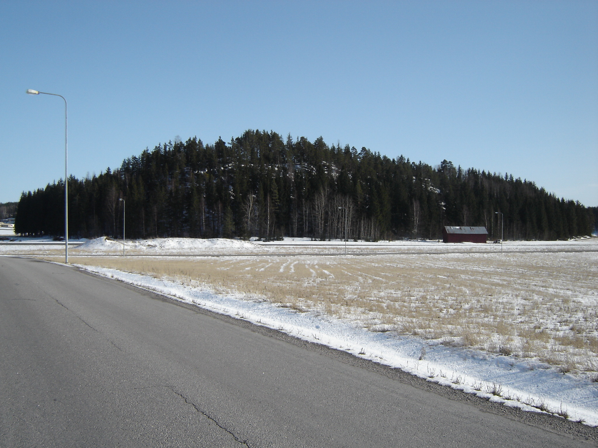 Hill fort near Rikala in Halikko, Finland.